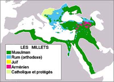 Prevailing religions of the Ottoman empire. Note that the "millets" of the Millet system were not actually defined territorially...